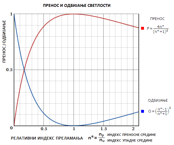 ОДБИЈАЊЕ И ПРЕЛАМАЊЕ СВЕТЛОСТИ